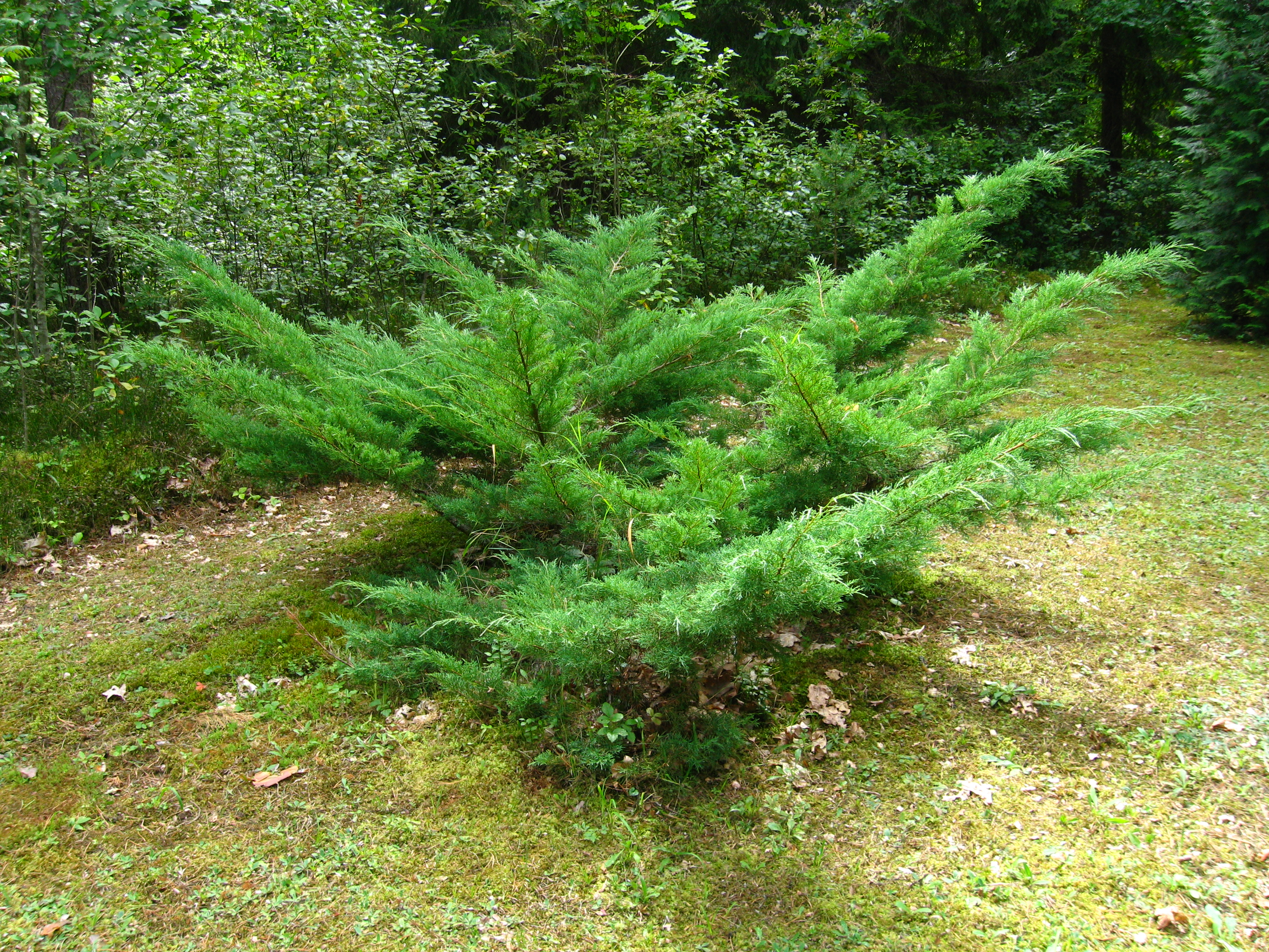 Juniperus × pfitzeriana 'Plumosa'